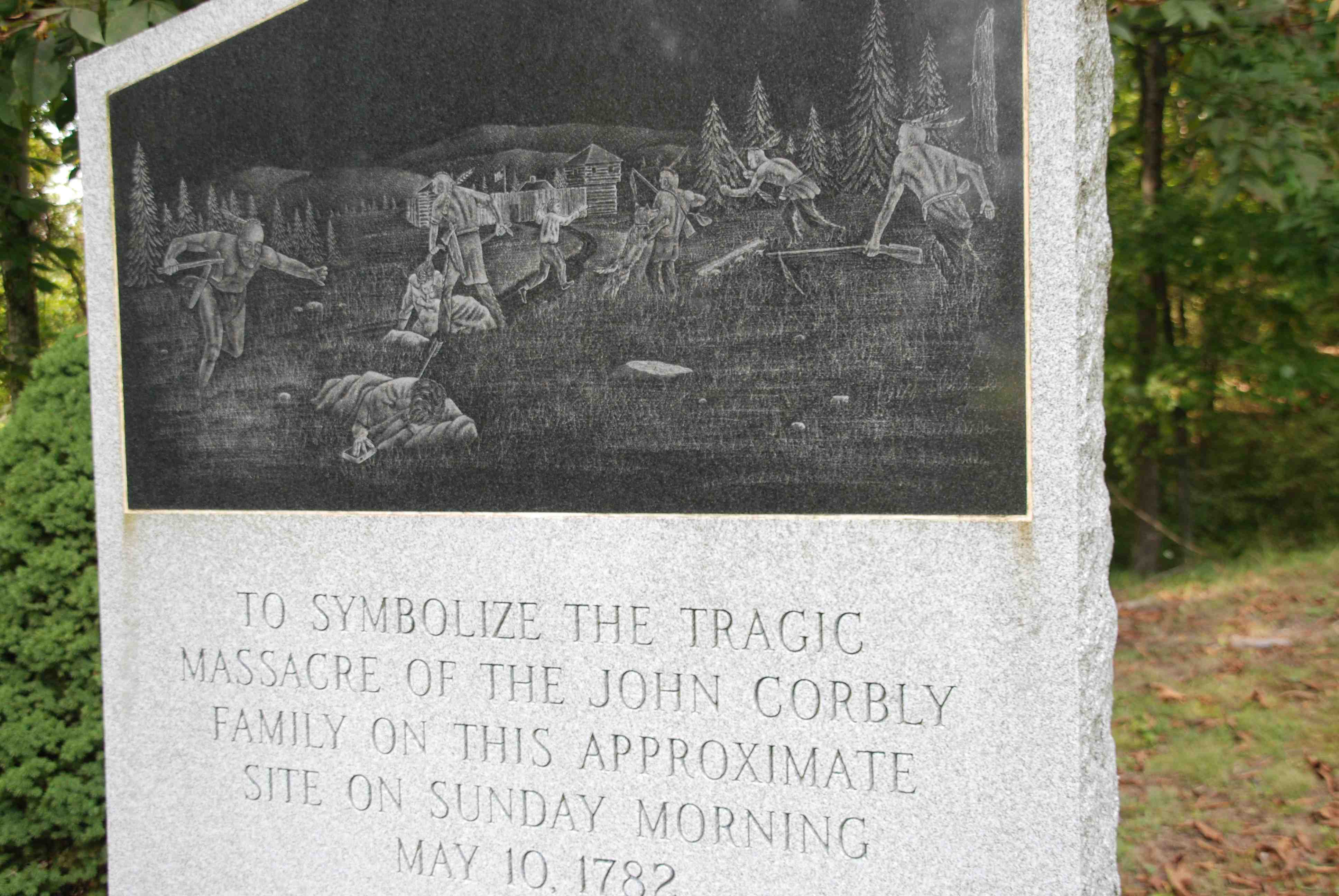 Monument in Garard's Fort Cemetery